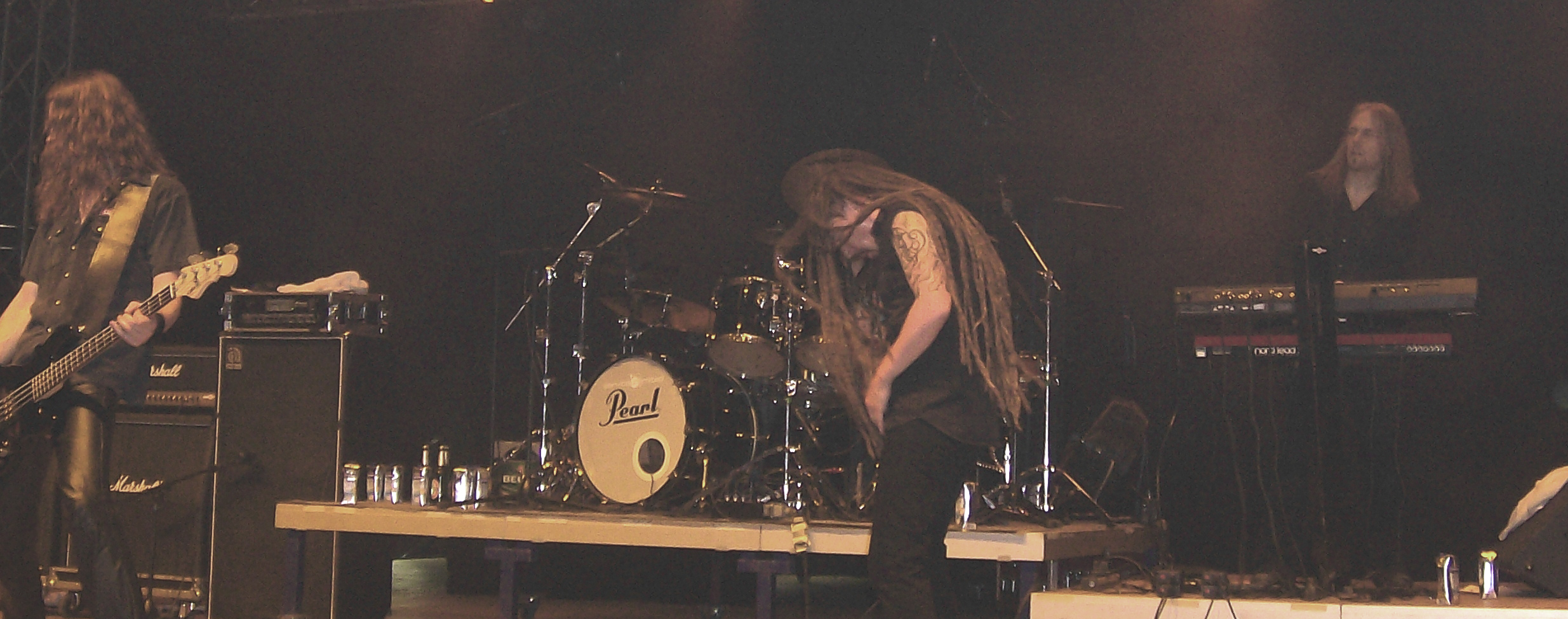 Amorphis live at WGT 2007 in Kohlrabizirkus